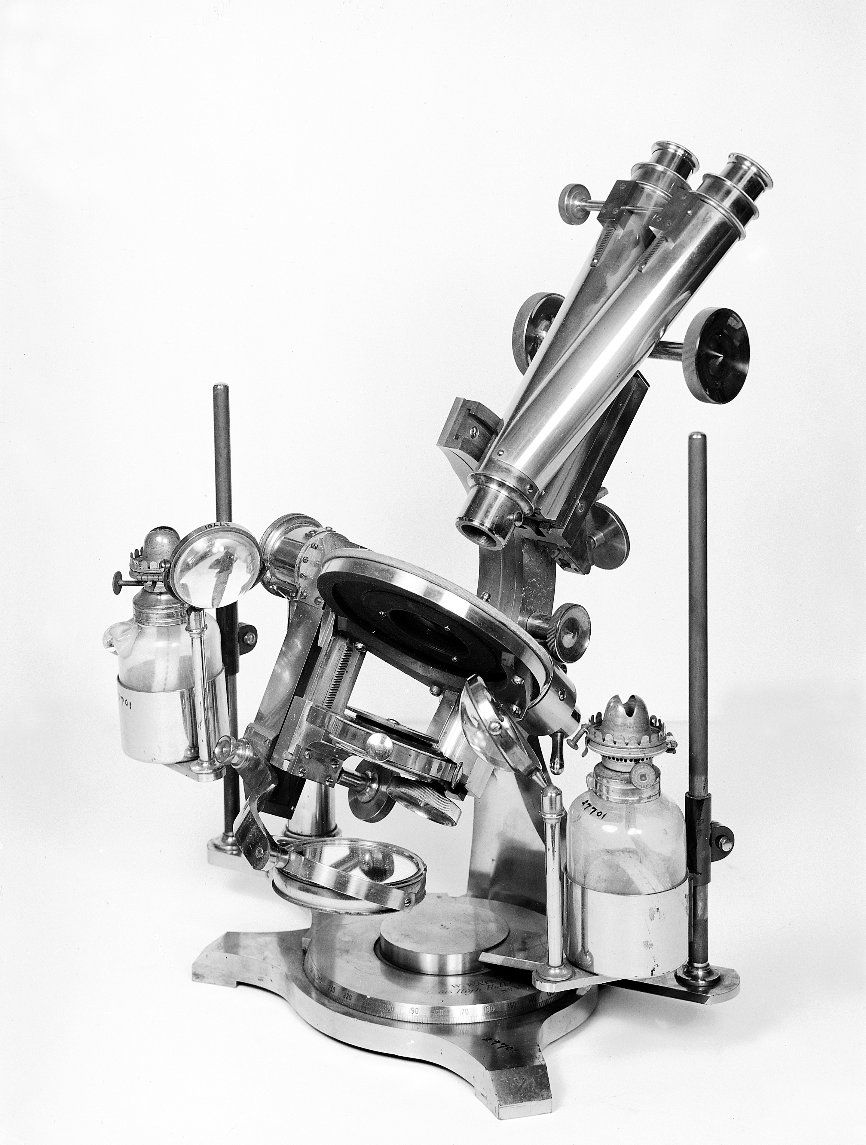 Microscope described as "modern" in 1888. A very complex instrument by Watson & Sons. Wellcome Images Keywords: Microscopes